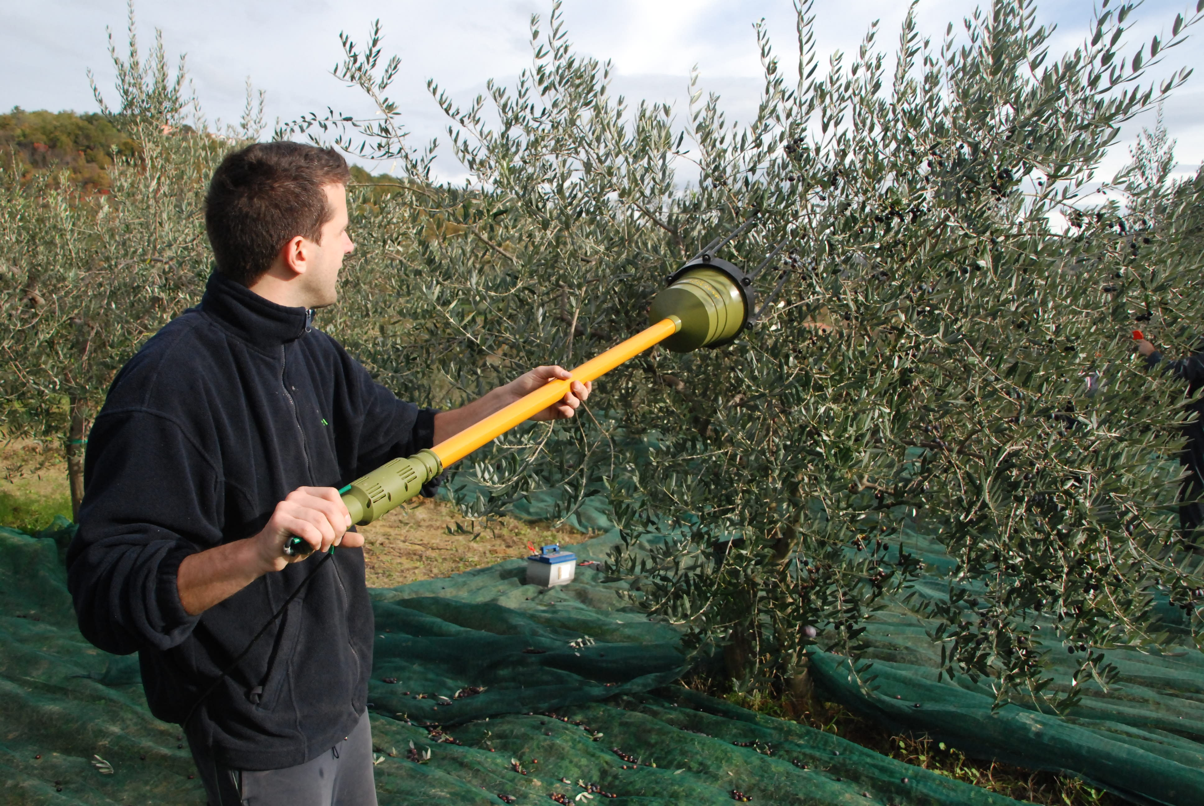 Picking of olives with a rapidly spinning electrical device. Krkavče (City Municipality of Koper), southwestern Slovenia.